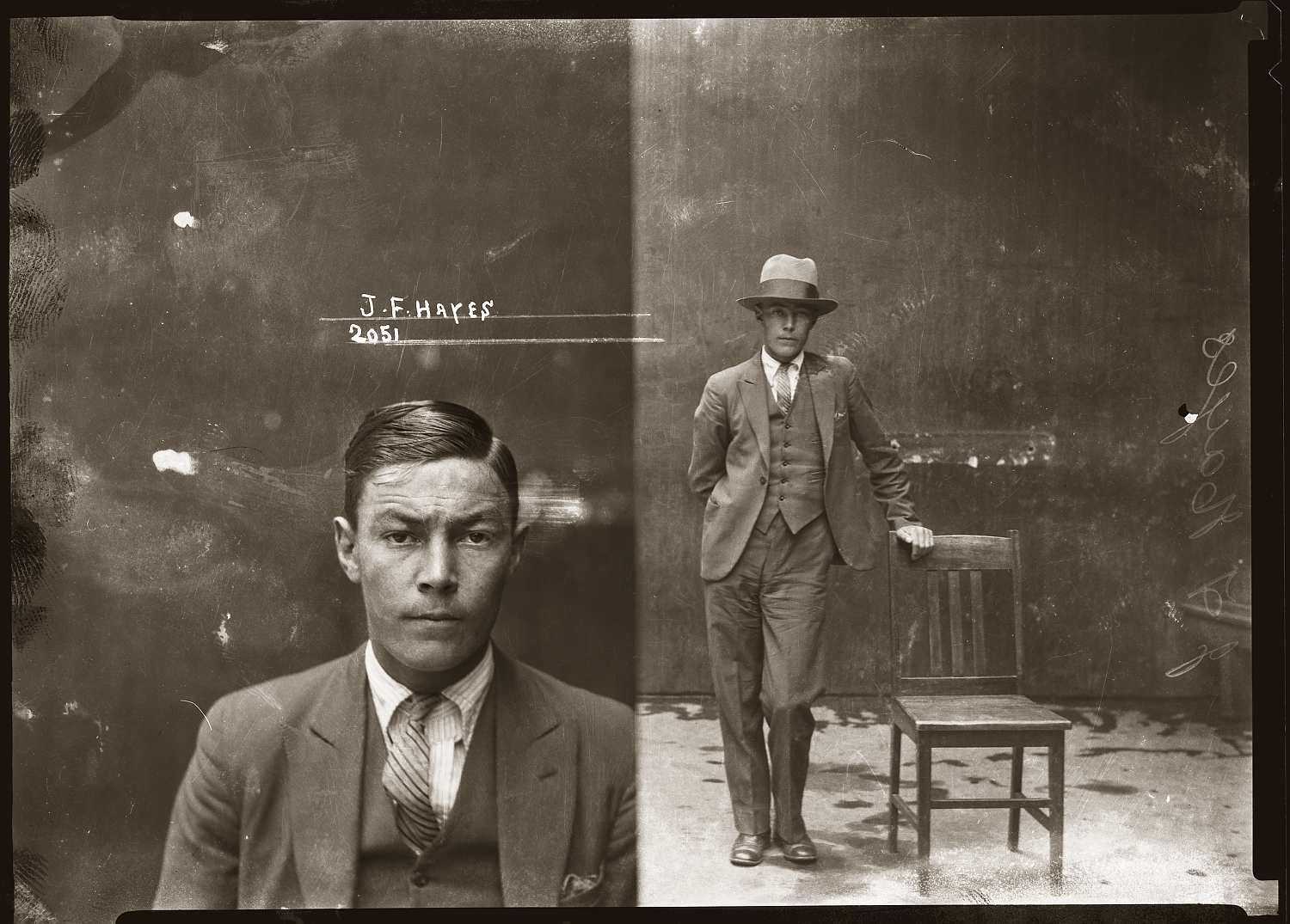 John "Chow" Hayes", 6 November 1930, Central Police Station, Sydney. Photograph is part of a series of ca 2500 photos of recently arrested criminals. The men and women in these photographs - this one included - were usually allowed to dress and pose as they wished for the mugshot.